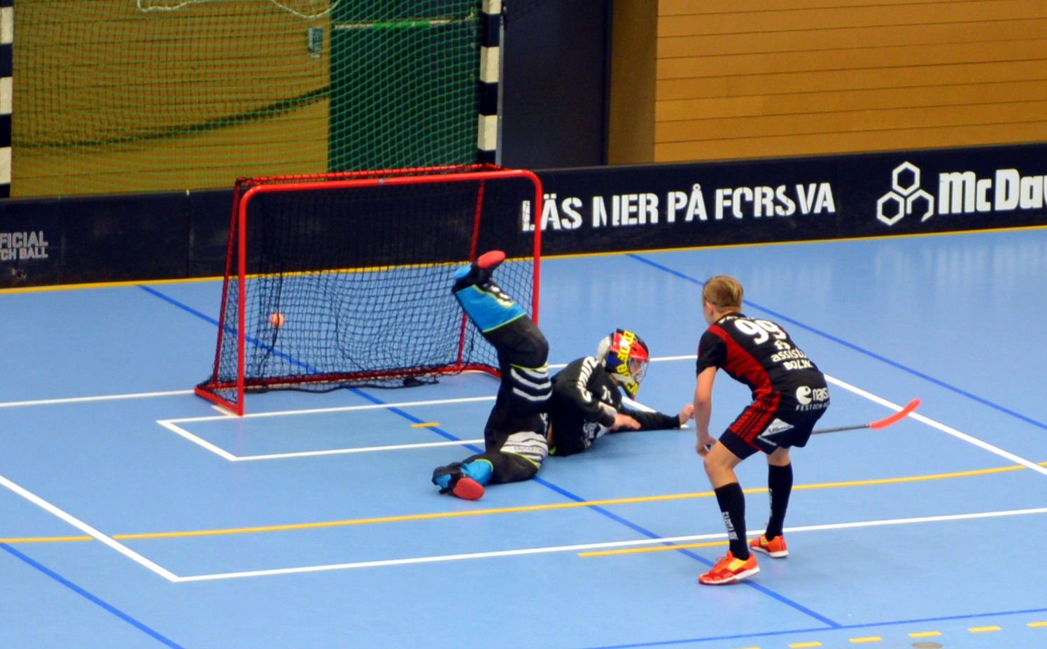 Player 99. Tommy Bolin (TTIBK) scores a goal on player 71. Christian Eddeborn (DIF).